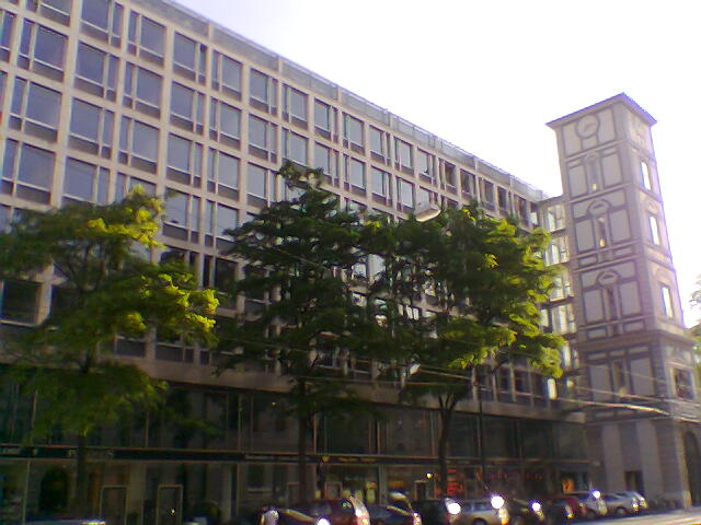 Herzog-Max-Burg by Theo Pabst and Sep Ruf, 1953-7